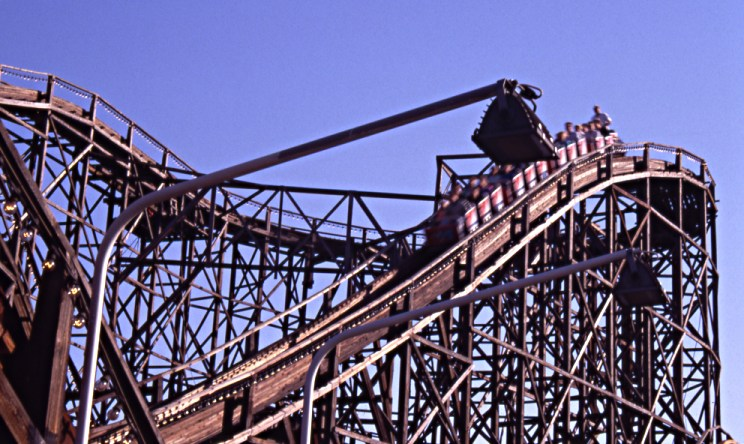 The roller coaster at the Linnanmäki amusement park in Helsinki, Finland.